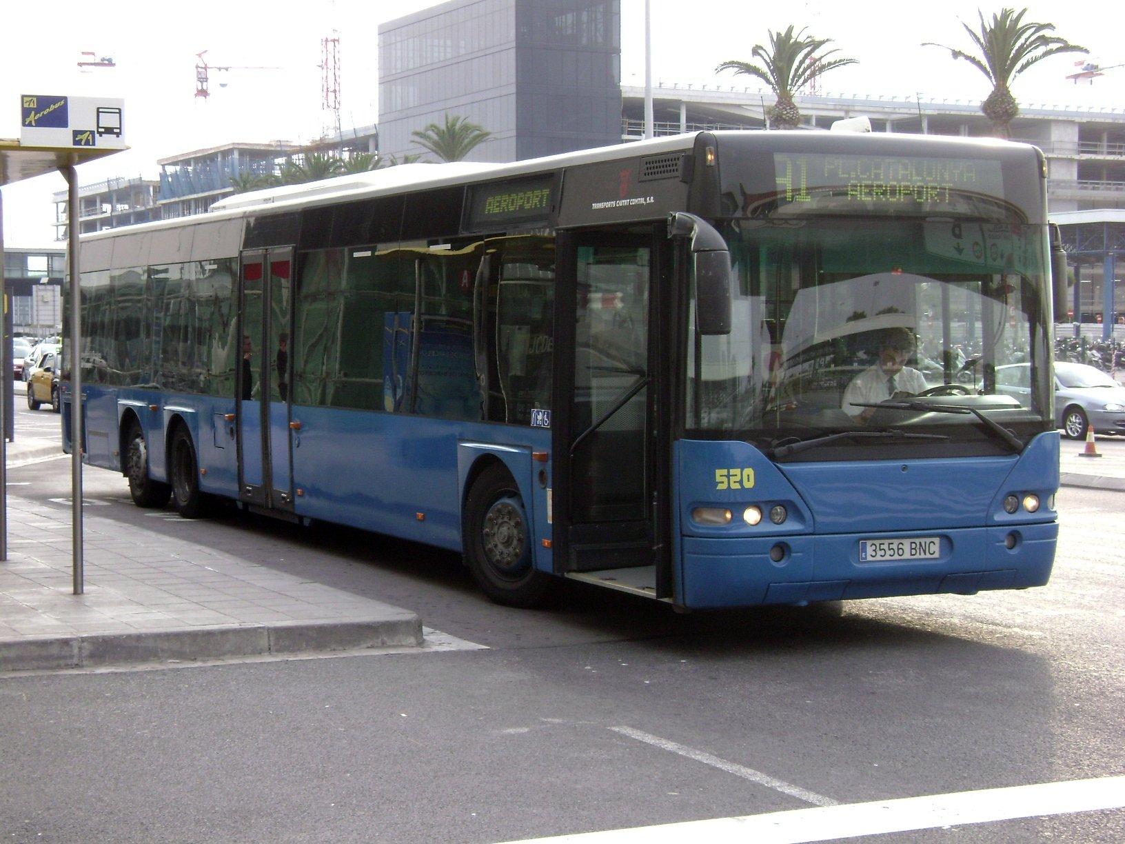 Aerobús. Special service to the airport, with larger seats, longer bus, space for luggage and fewer stops to pick up passengers.